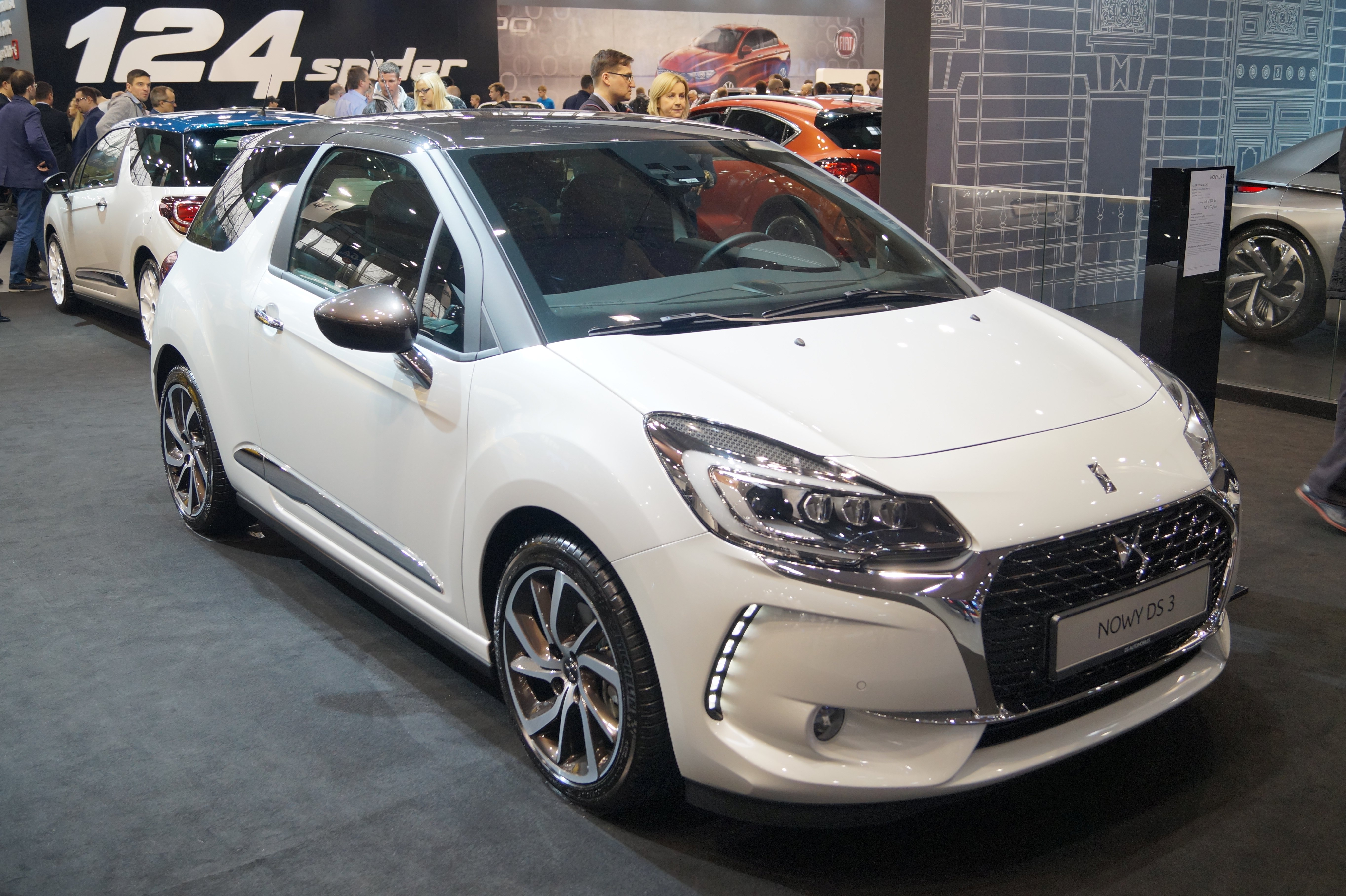 The making of this document was supported by Wikimedia Polska Association, within Wikigrant no. WG 2016-10. Citroën DS3 na Motor Show Poznań 2016